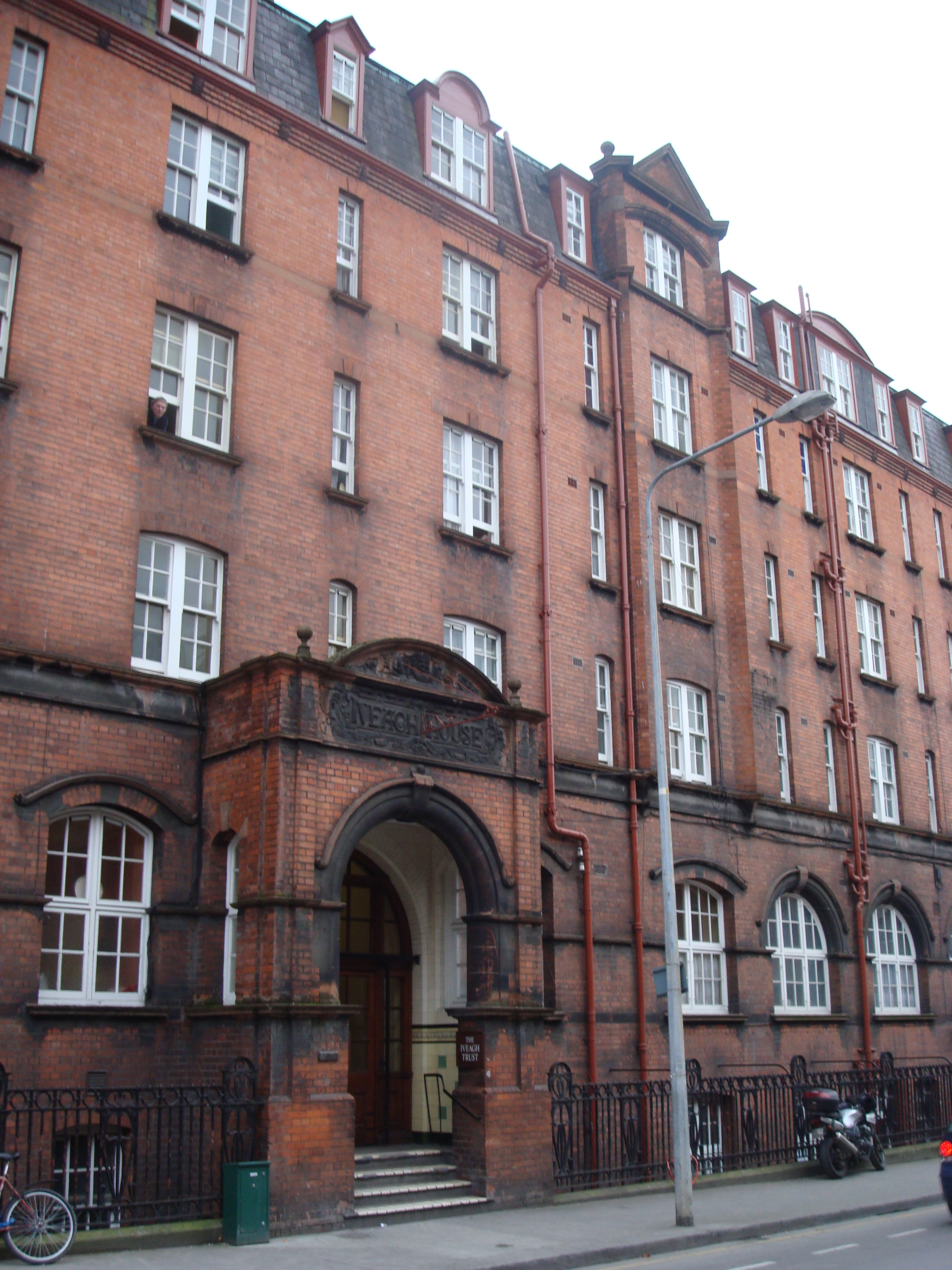 Iveagh House, Liberties, Dublin